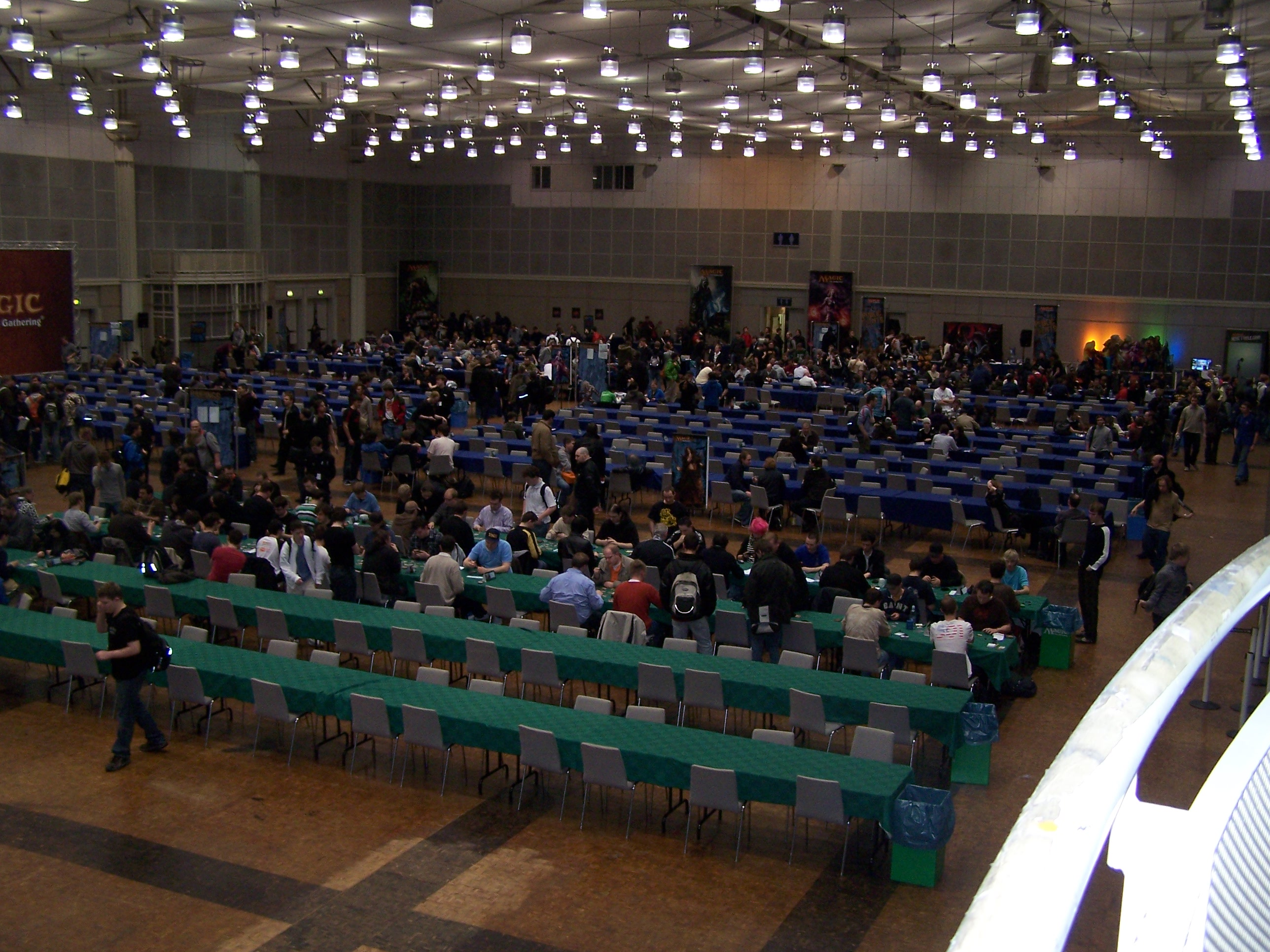 Viewing the hall from above at GP Hanover